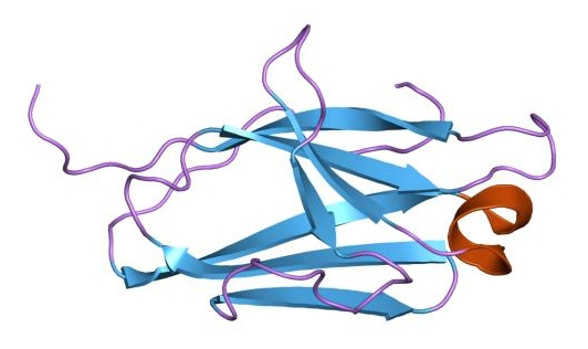 Cartoon representation of the molecular structure of protein registered with 2rhe code.